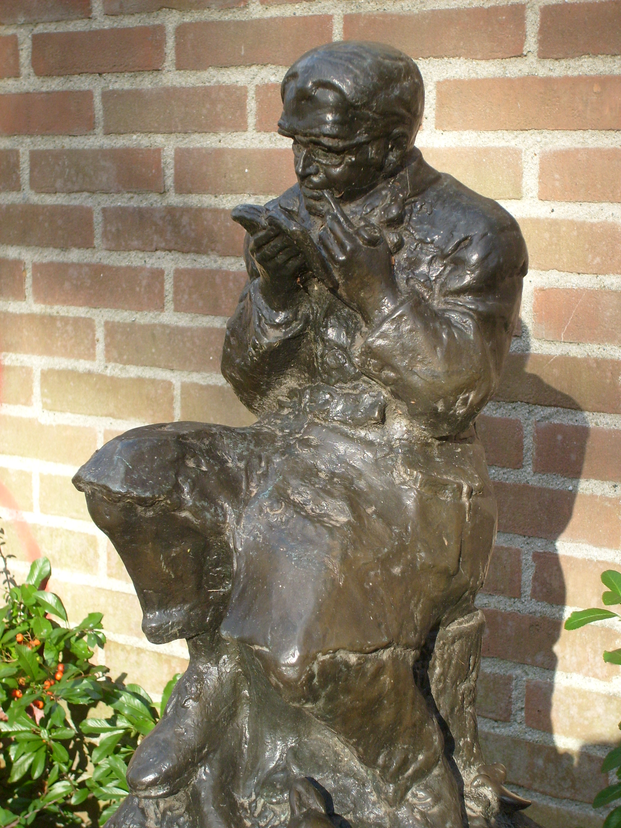 Sculpture of Dutch writer Godfried Bomans, Bronze, date: 1982. Artist: Wim Jonker. Location: Wijngaardtuin, Janstraat, Haarlem, Netherlands